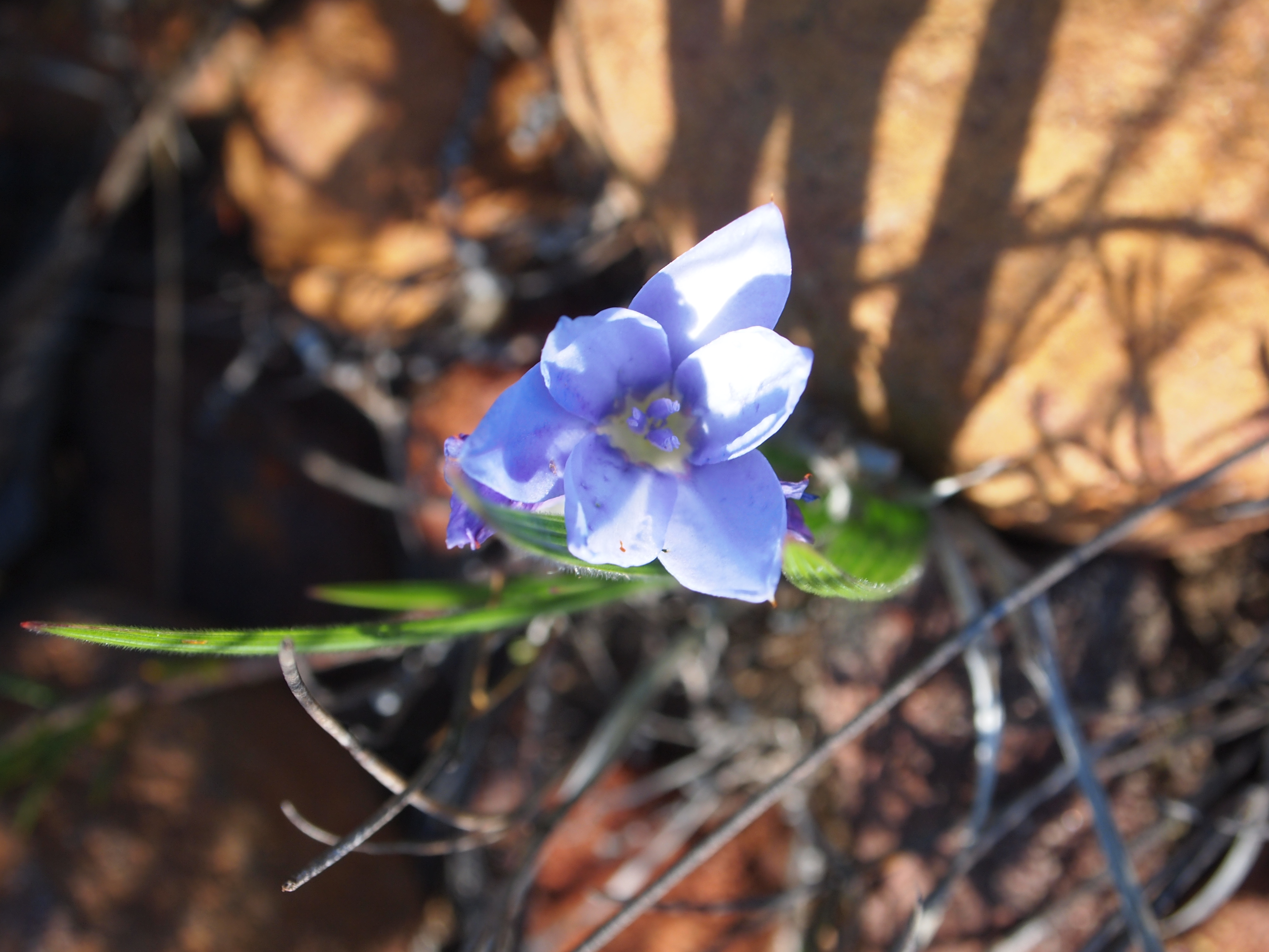 Table Mountain Cape Town